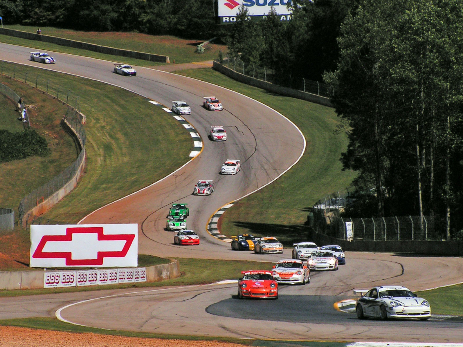 The start of the IMSA GT3 Cup Challenge race at the 2006 Petit Le Mans at Road Atlanta.